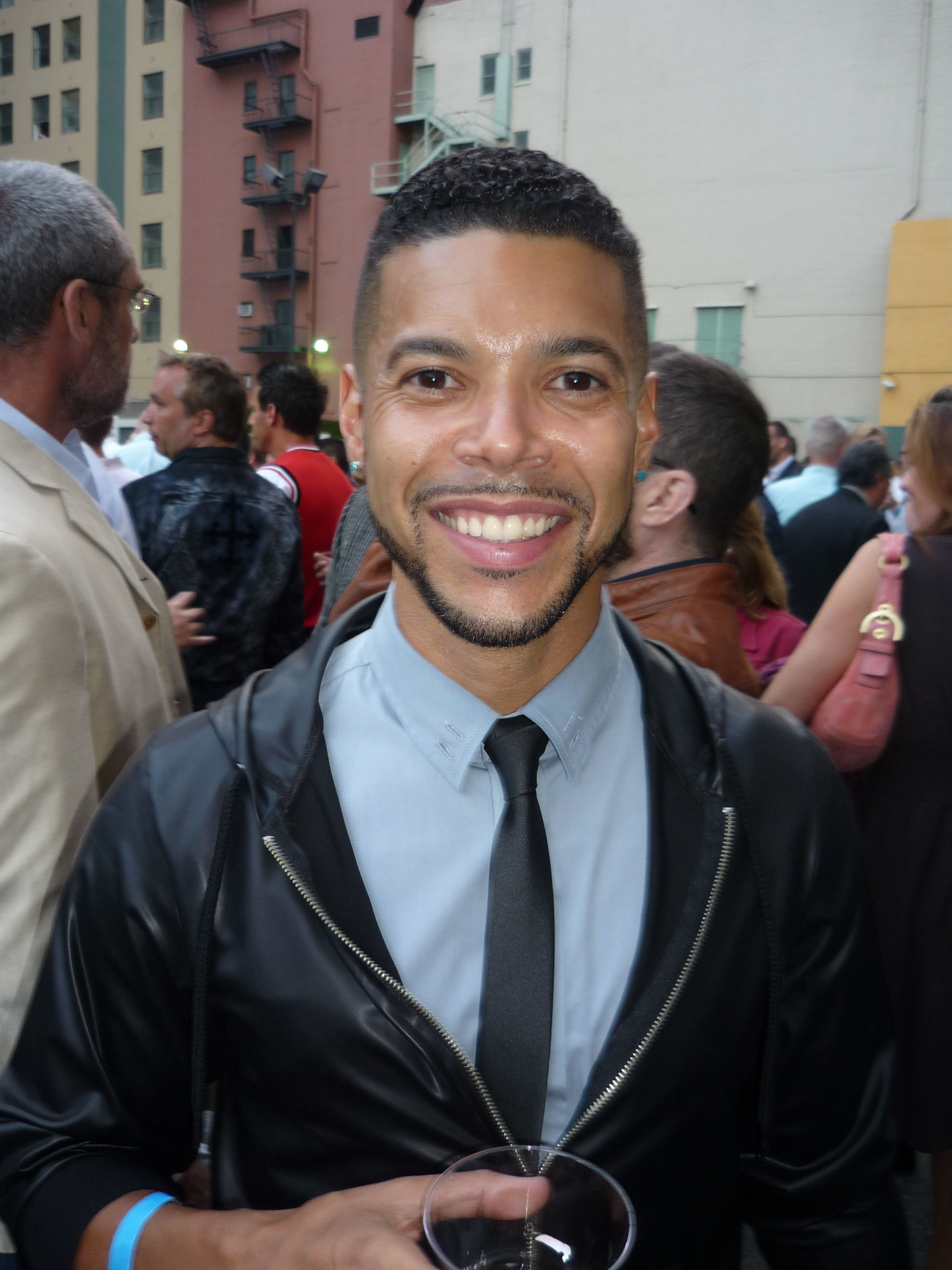 Wilson Cruz at Outfest 2010.